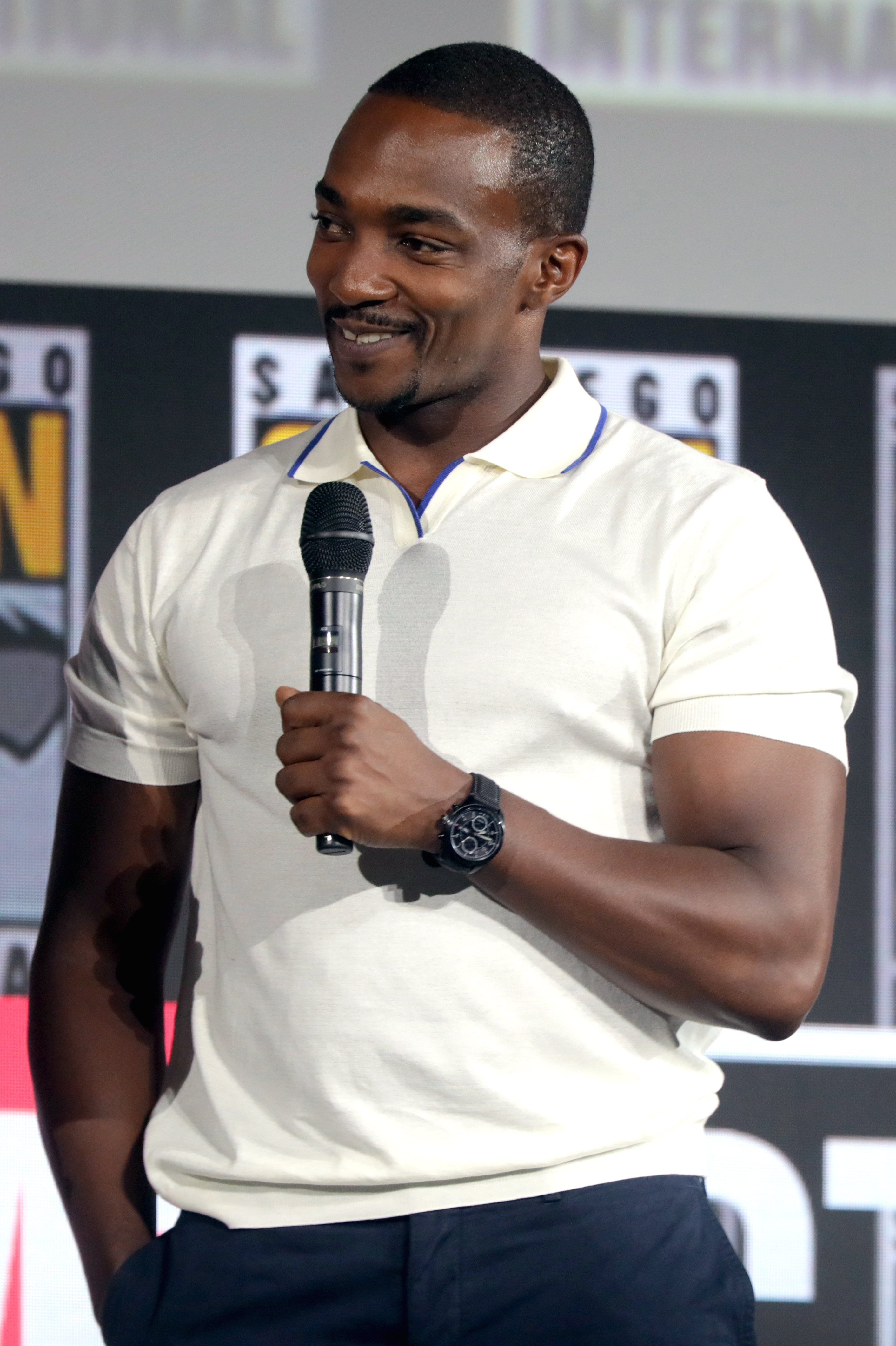 Anthony Mackie speaking at the 2019 San Diego Comic Con International, for "The Falcon and the Winter Soldier", at the San Diego Convention Center in San Diego, California.